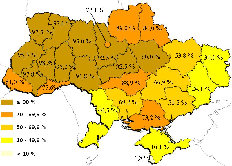 Percentage of Ukraine language speakers in Ukraine per oblast. Map for international language use. No languages on map, only colours and numbers.